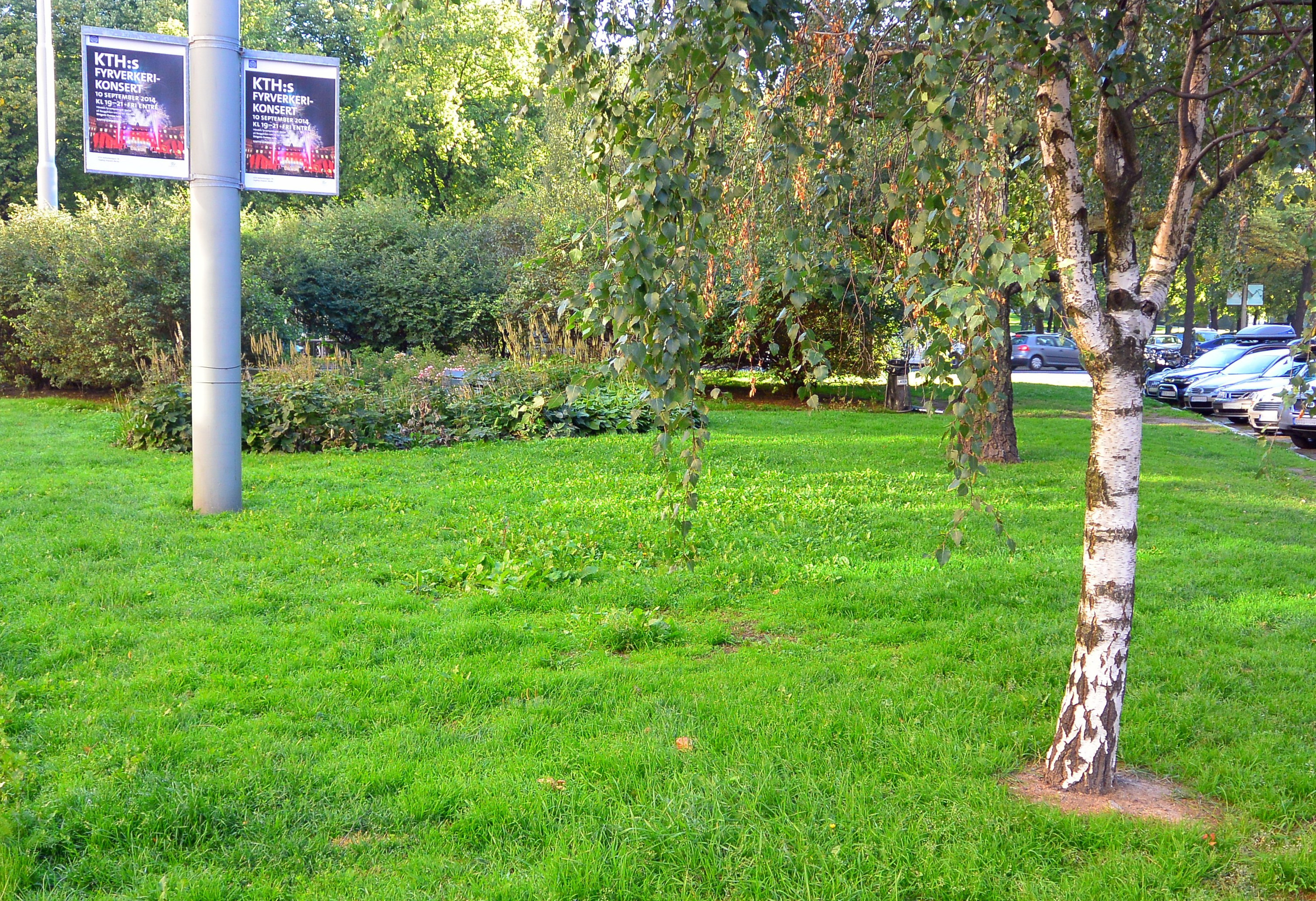 Lill-Jans plan, Östermalm, Stockholm, Sweden.